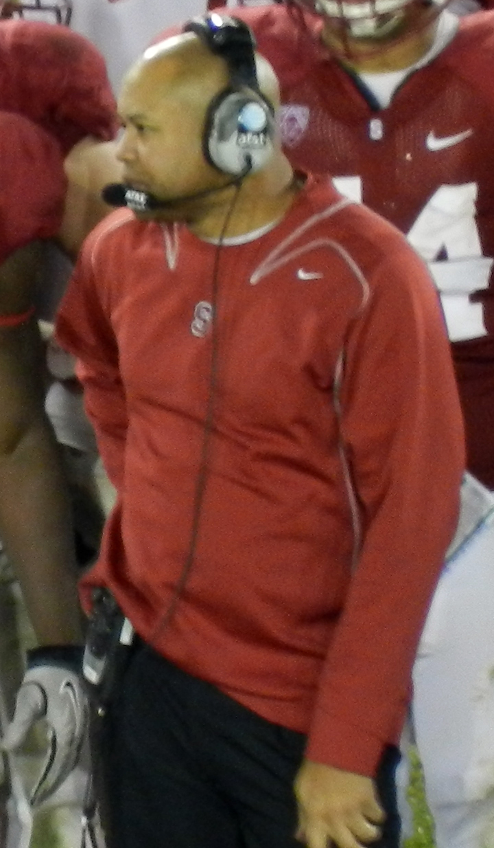 Stanford sidelines during the 2011 game between the Cardinals and Oregon Ducks.